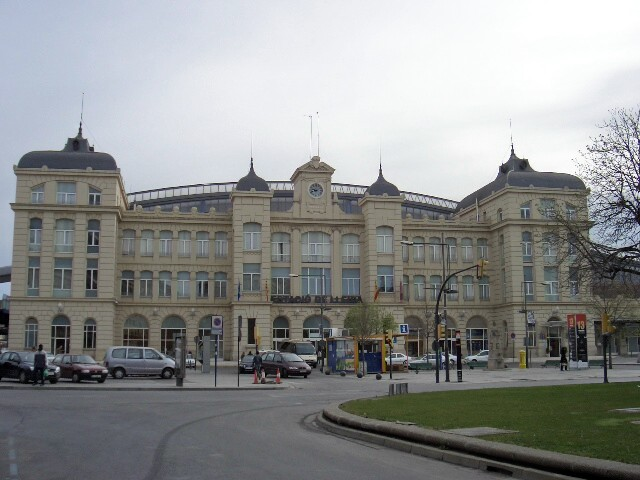 Station of trains from Lleida-Pirineus to Spain